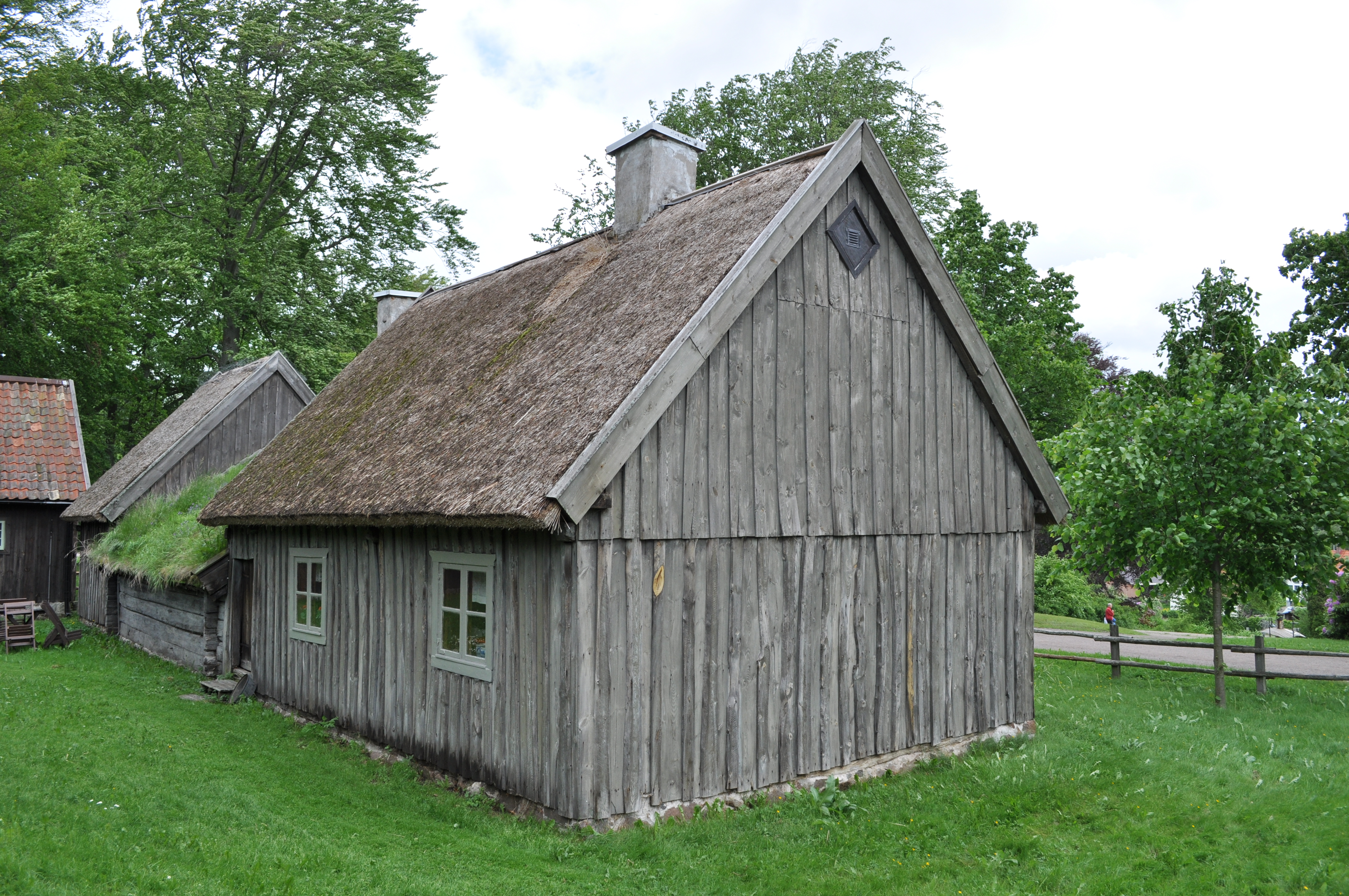 Ebbaredsstugan in the park of Laholm.